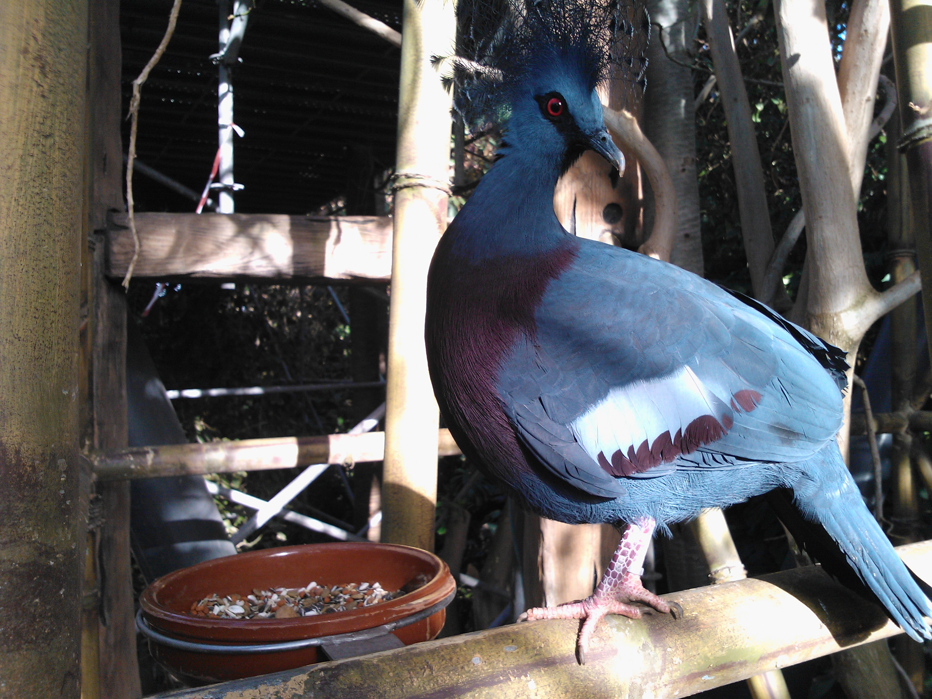 Birds at Loro Parque